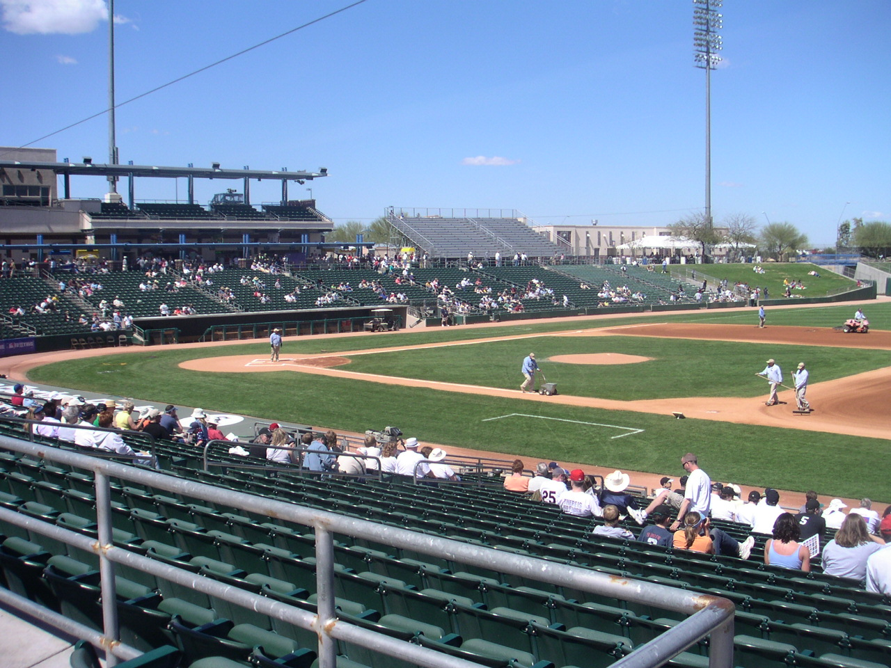 Tucson Electric Park, Tucson, AZ, prior to a Spring Training game -- March 2005